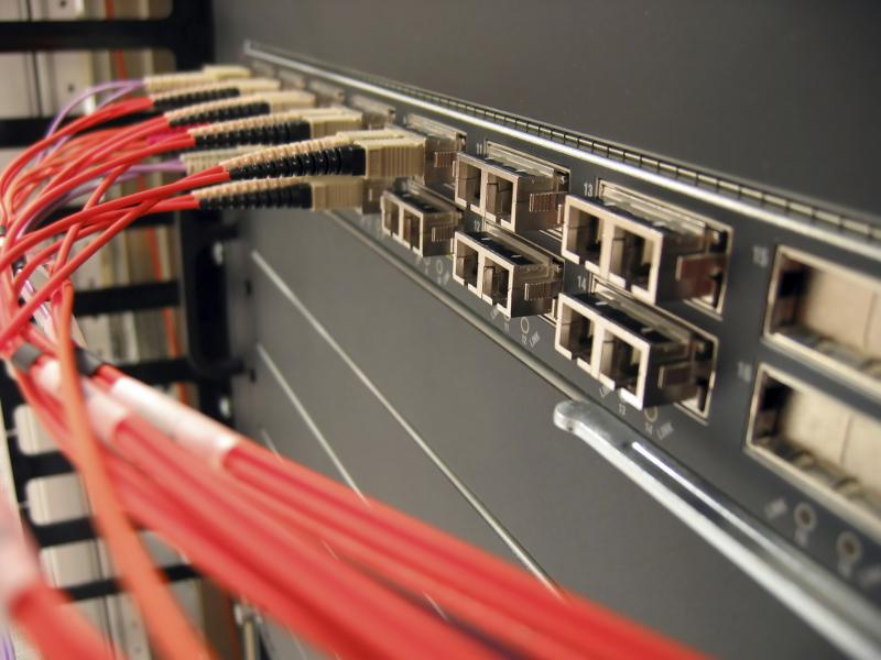 ප්‍රකාශ තන්තු ‍රැහැන් රව්ටරයකට සම්බන්ධ වී ඇති ආකාරය. මෙහි තැඹිලි පැහැයෙන් ඇත්තේ තනි ආකාර තන්තු (Single-Mode Fiber(SMF)) වේ.